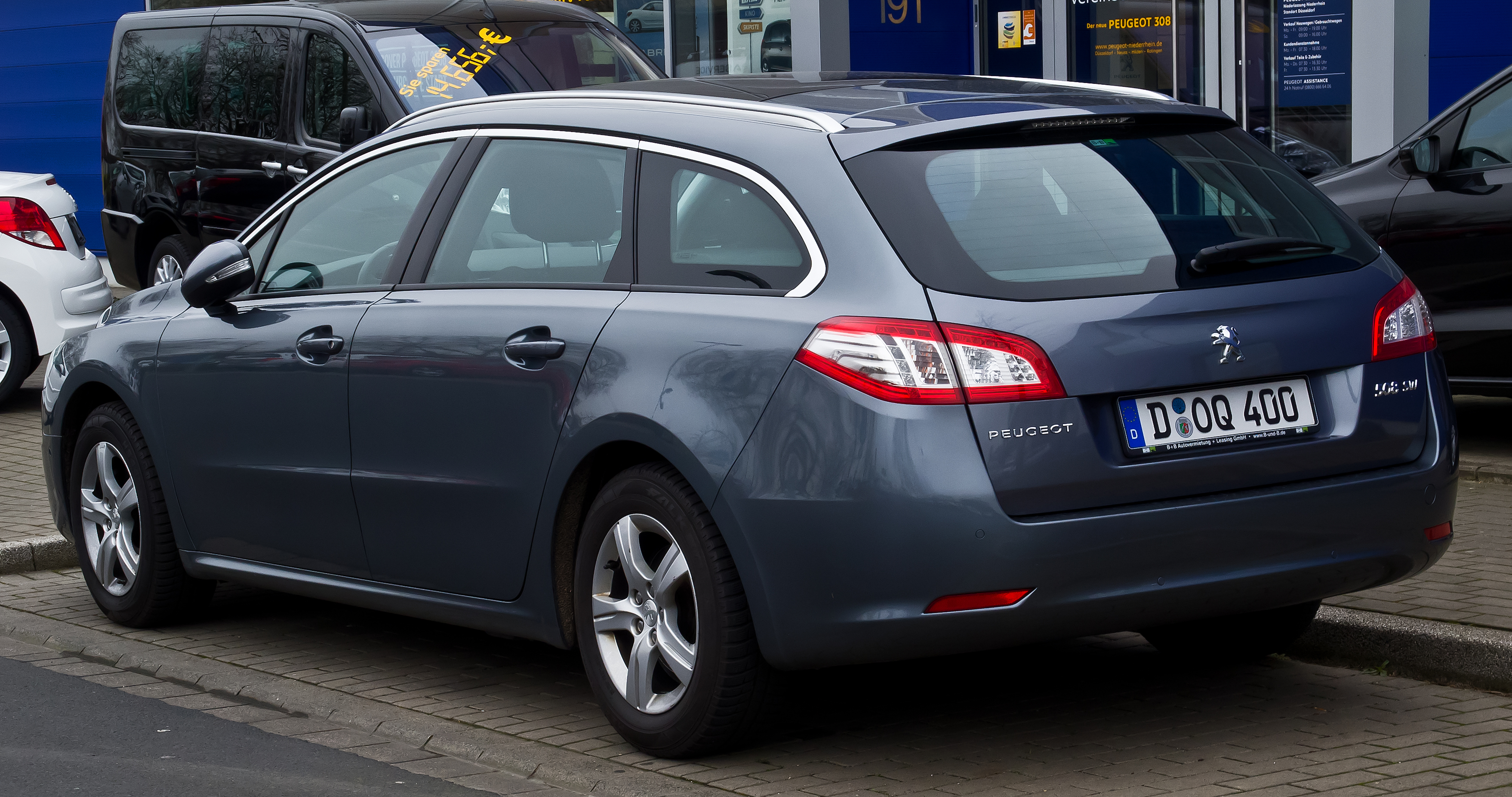 Peugeot 508 SW Active